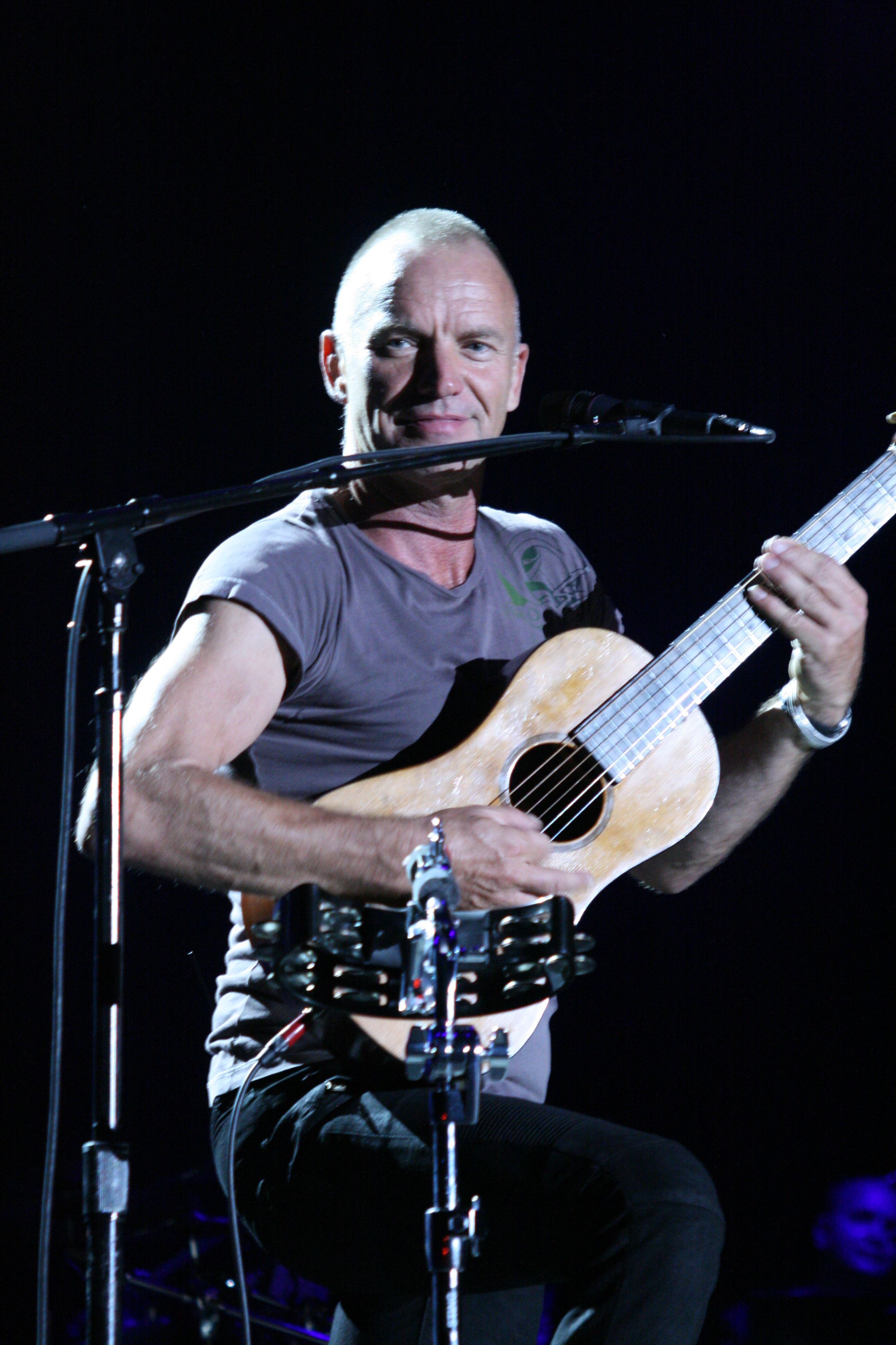 Papp Laszlo Budapest Sportarena, Concert